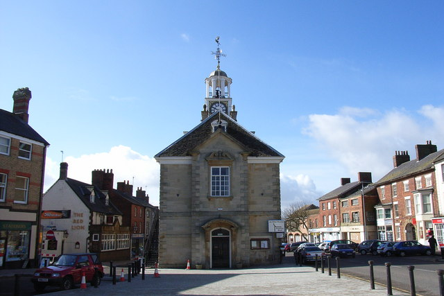 Brackley Town Hall Looking southwards down Market Place.